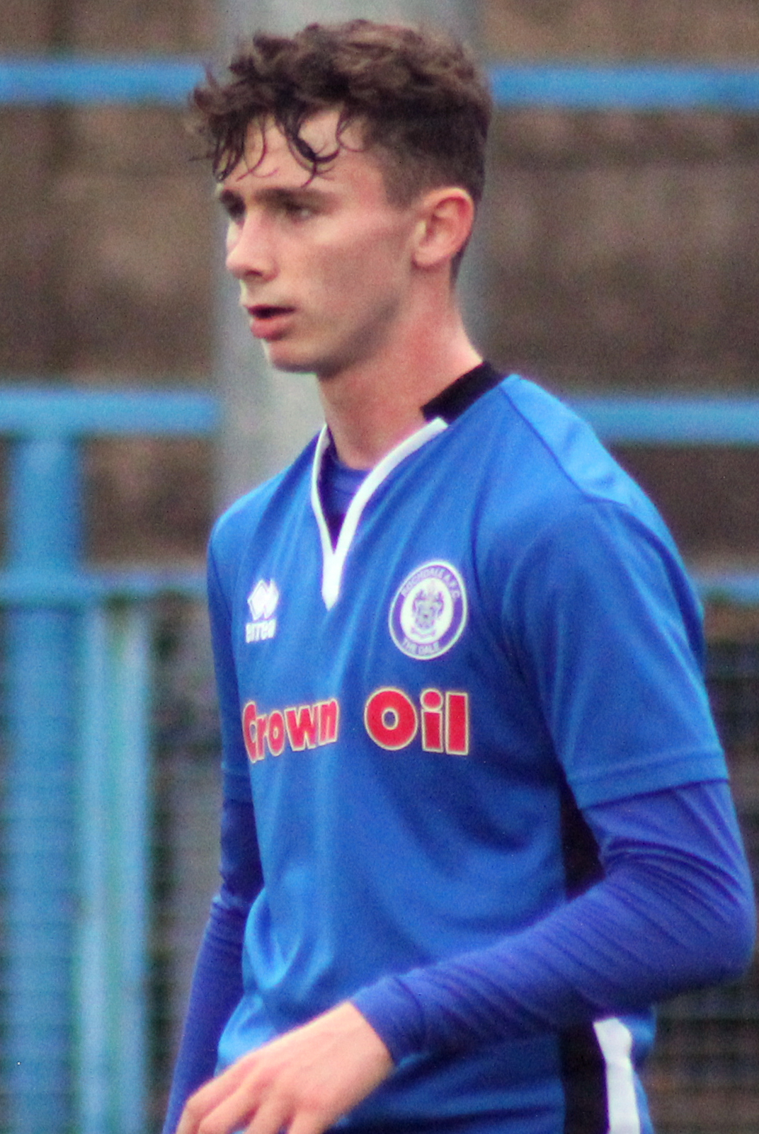 Rochdale U18s 3-2 Preston North End U18s EFL Youth Alliance Northwest Division Saturday 14 October Bower Fold